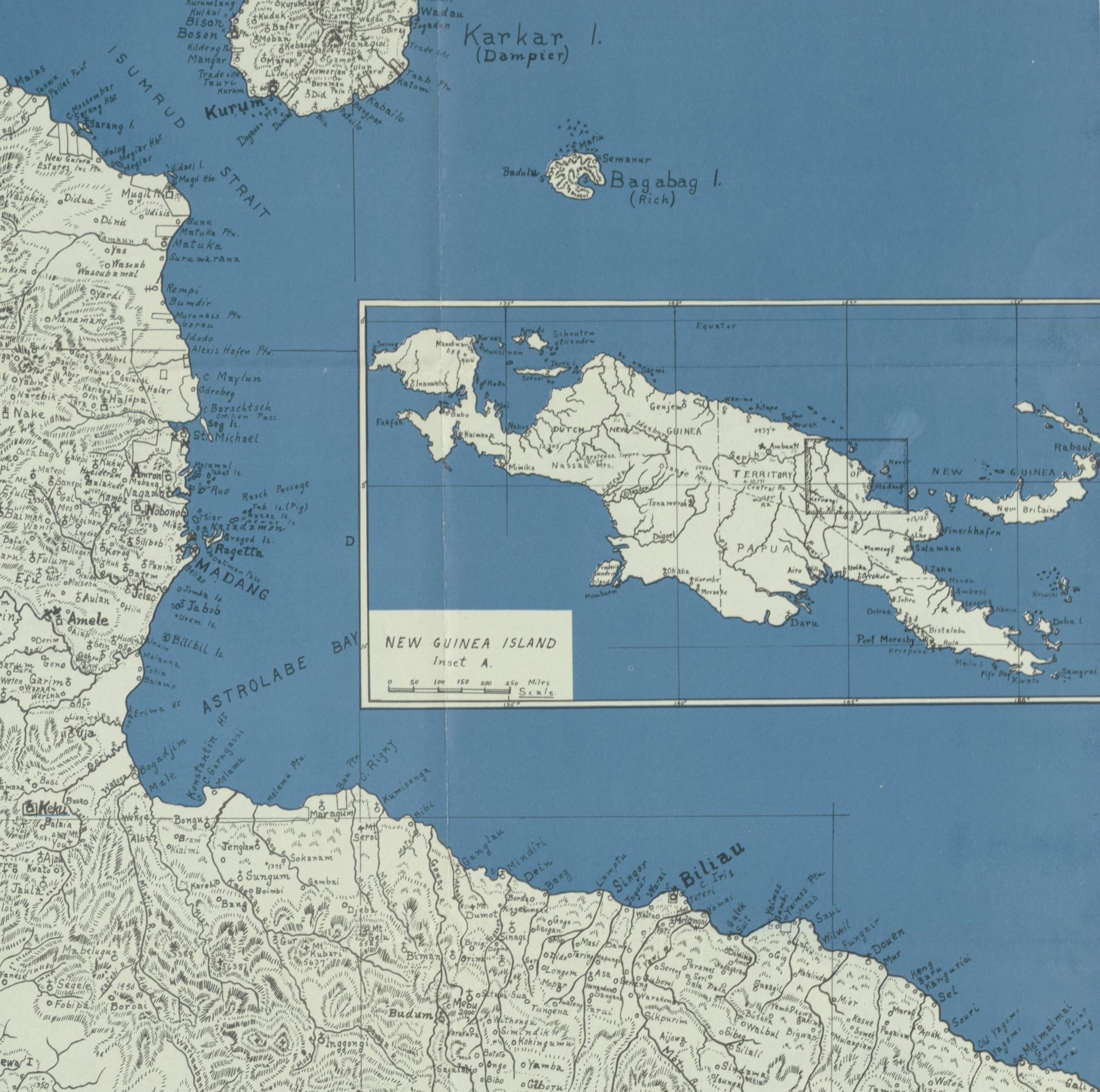 Map of section of Papua New Guinea showing villages, missions, reefs, gold and roads. Relief shown by hachures.